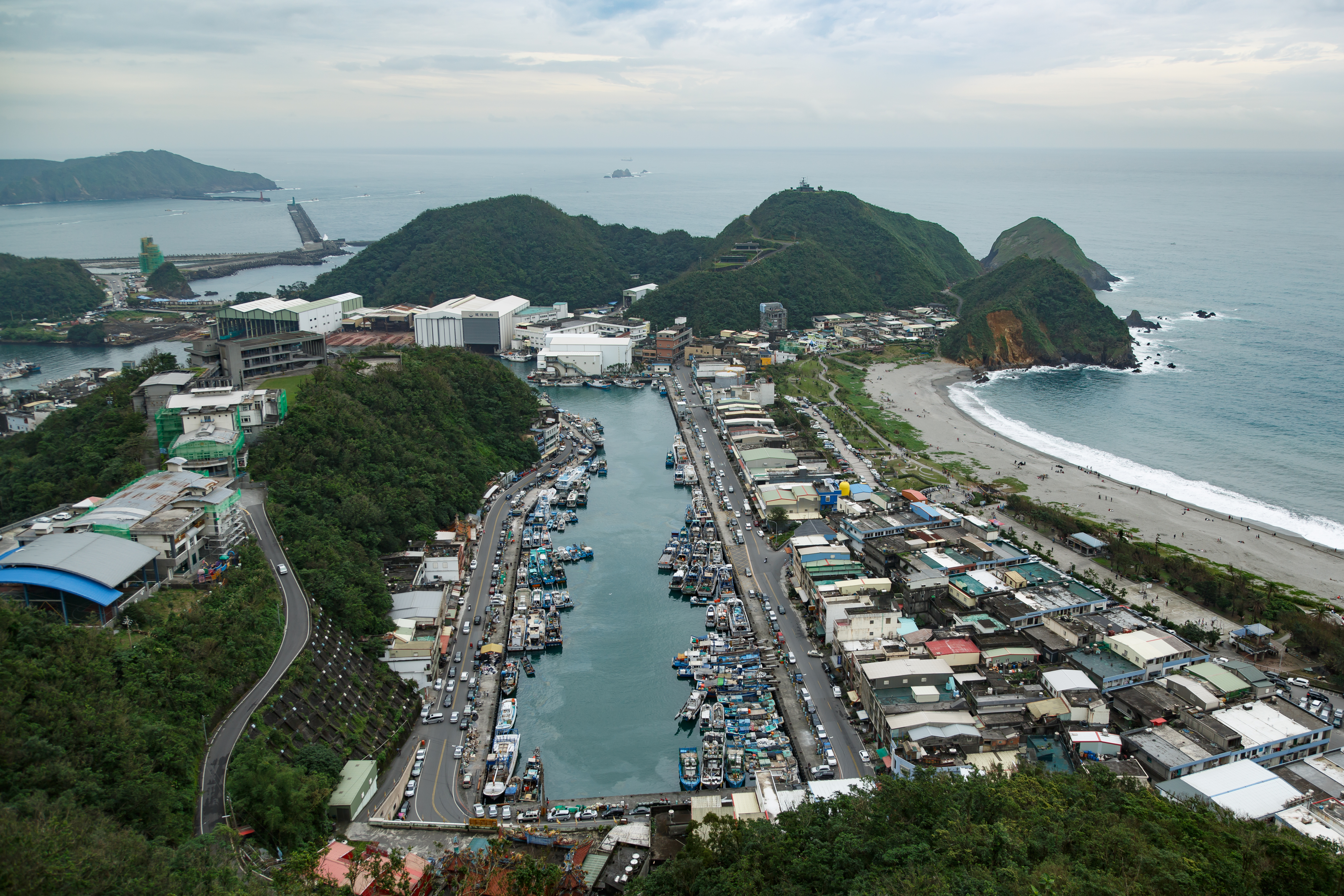 Suao, Yilan, Taiwan: Neipi is the second fishing port in Nanfang'ao.